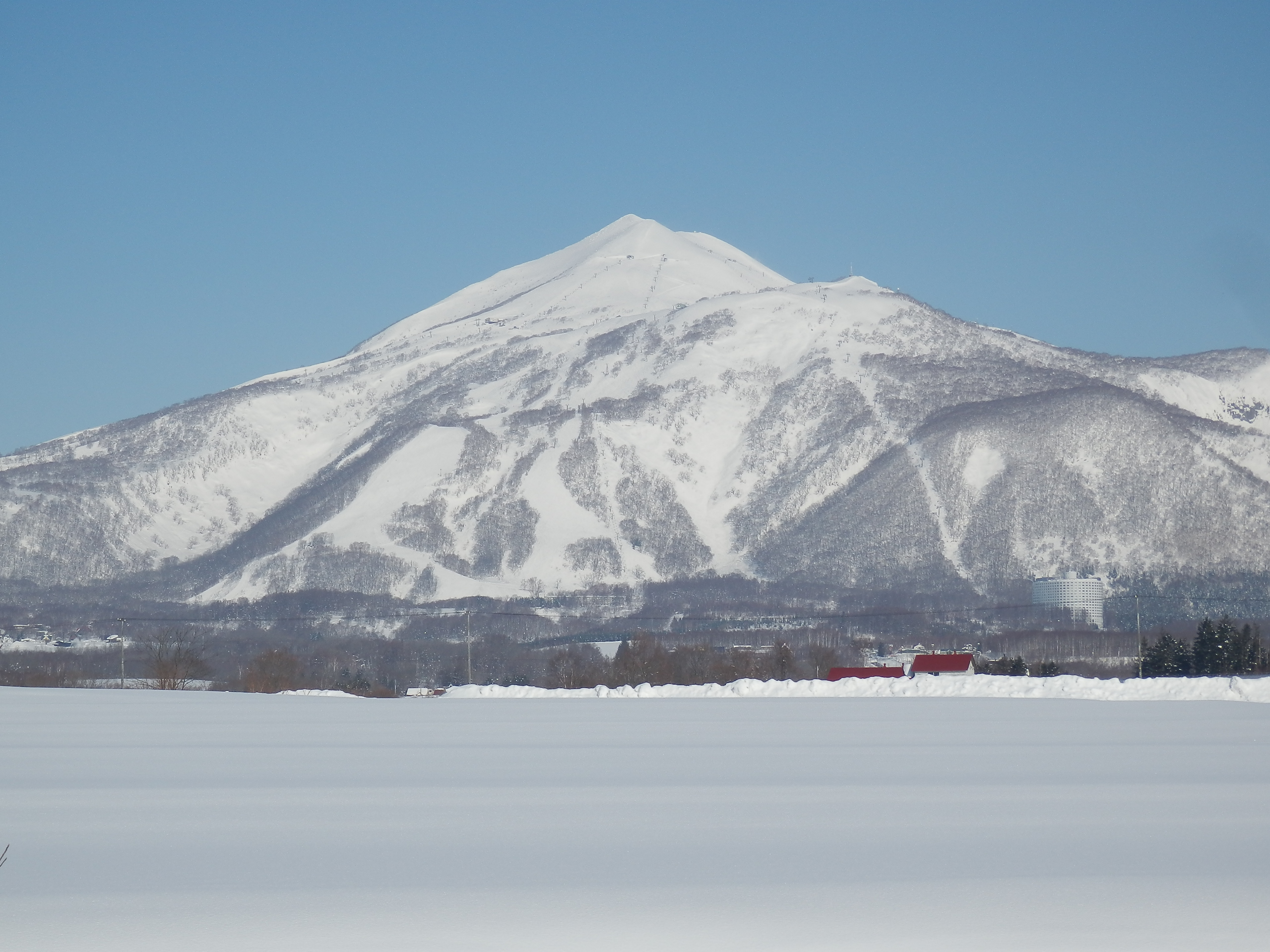 The Southeast face of Niseko Annupuri in Niseko, Hokkaido.